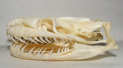 Lateral view of burmese python skull